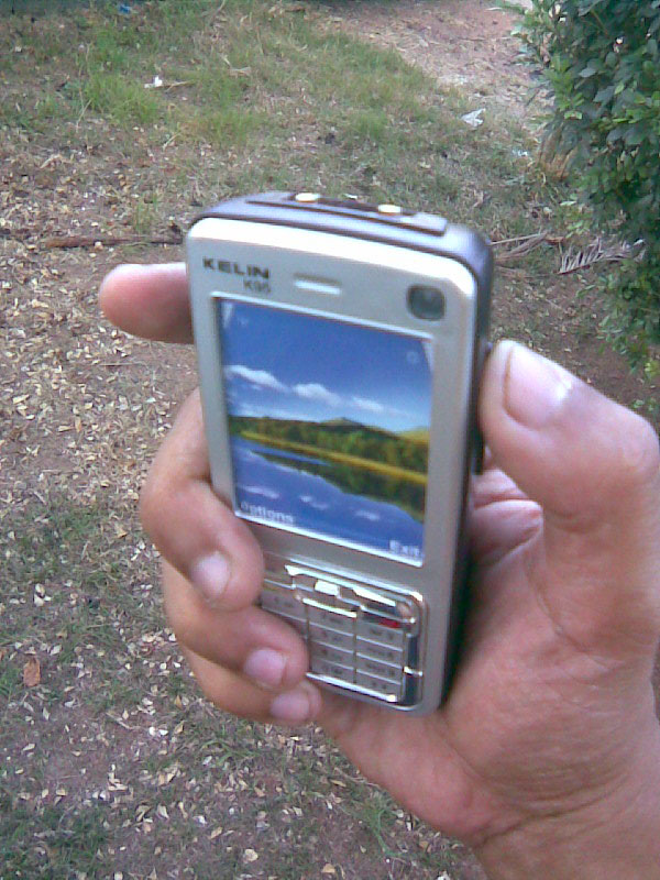 KELIN K95: Electro-shock Stun Gun like a cellphone